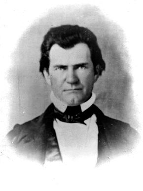 Photograph of Joshua L. Martin (1799-1856).